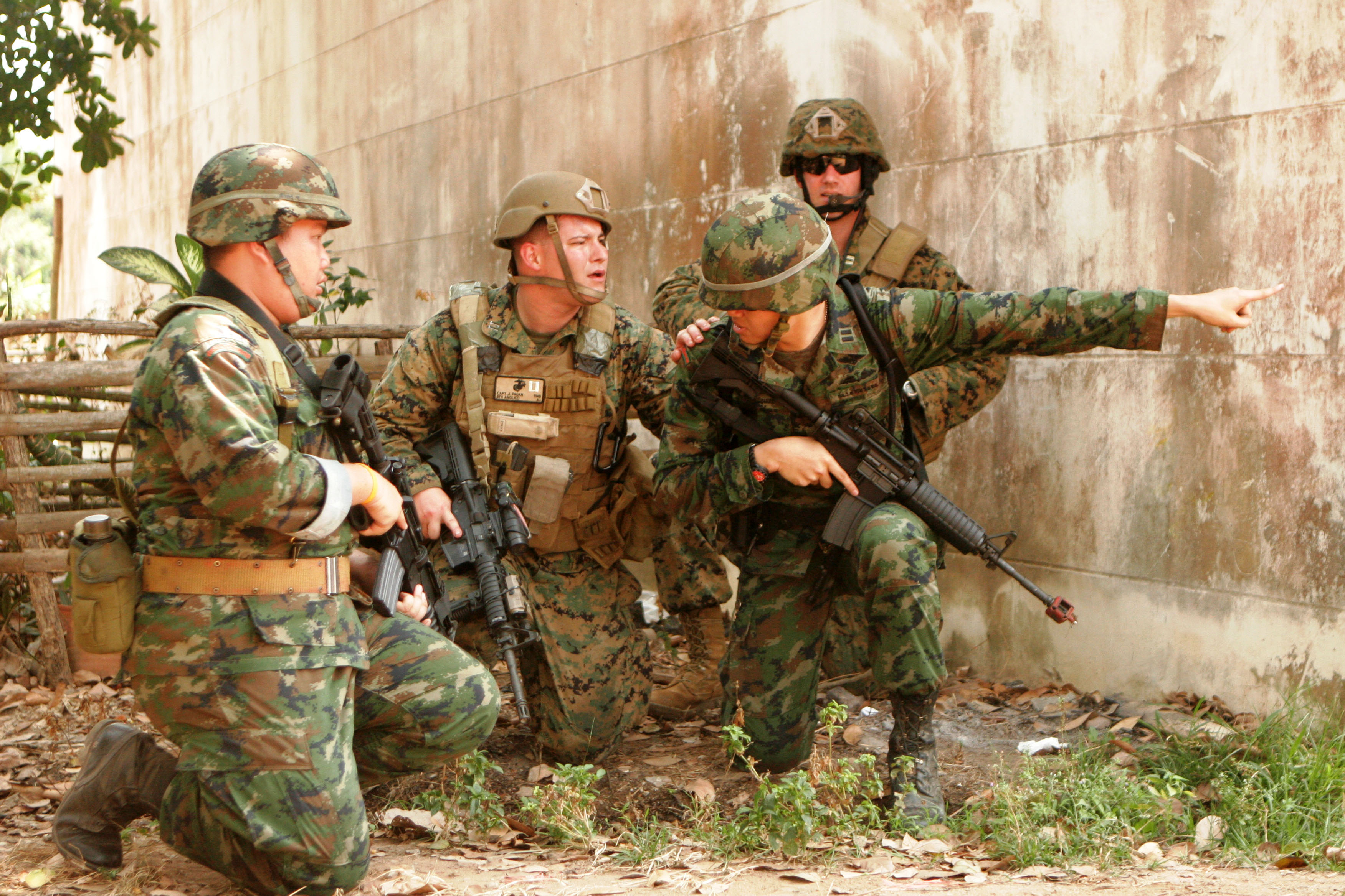 Royal Thai and U.S. Marines discuss how to eliminate hostile forces firing on them from a building during a mock mechanized raid on Feb. 11, 2011. The raid, part of exercise Cobra Gold 2011, was a bilateral event between Royal Thai and U.S. Marines. Thailand is one of the United States' five major non-NATO treaty allies in the region.